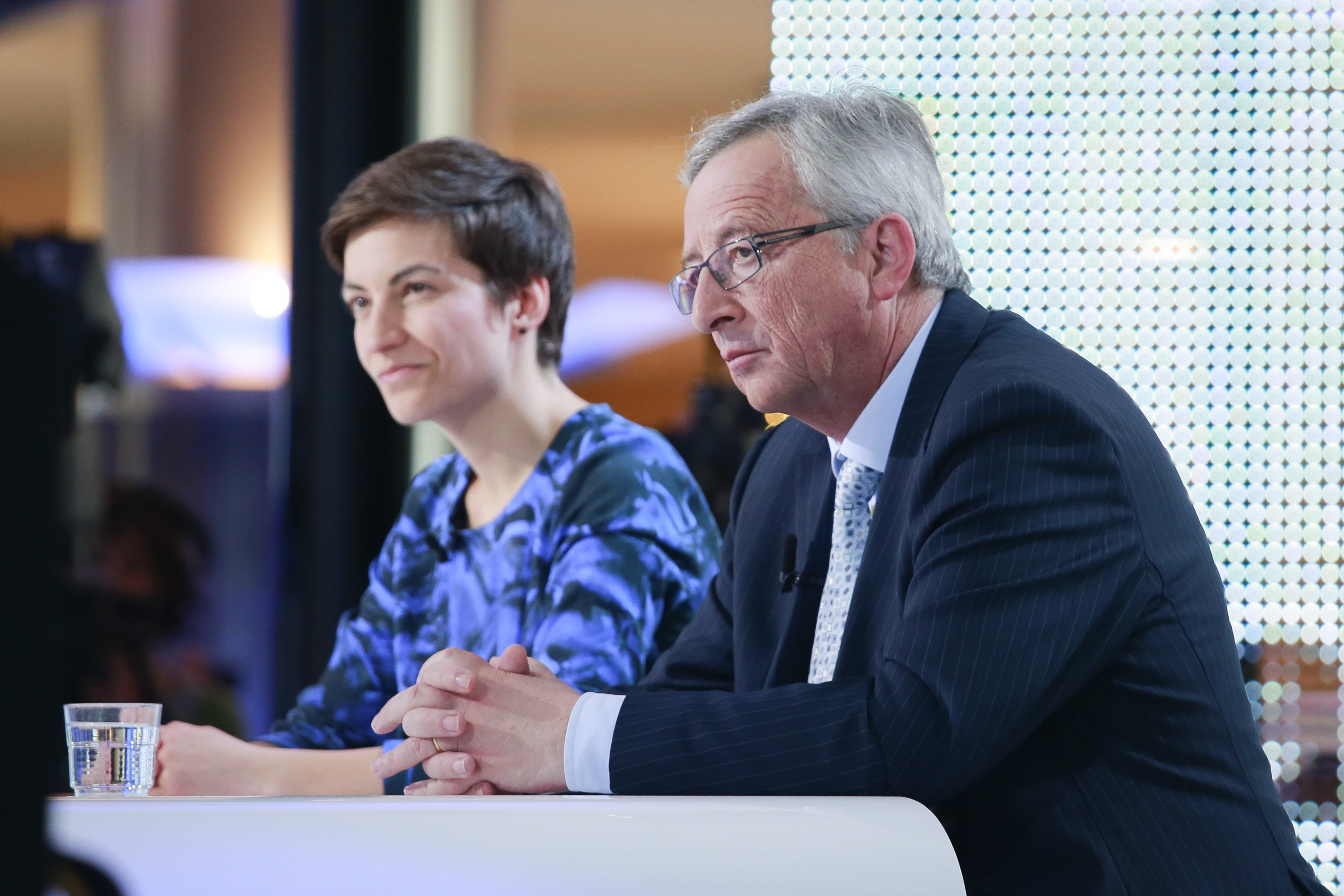 Who will be the next president of the European Commission? And how will he – or she – deal with the big election issues, like mobility, energy and unemployment? With just weeks to go before the EU-wide election in May, Euranet Plus talk directly with the top candidates. On April 29, the presidential hopefuls came together to answer these questions and more, outlining their plans for the next five years. Guests - Jean-Claude Juncker (European People’s Party), - Ska Keller (European Green Party), - Martin Schulz (Party of European Socialists) and - Guy Verhofstadt (Alliance of Liberals and Democrats for Europe) Moderators: - Brian Maguire - Ahinara Bascuñana López The videos, audios and all the details about the Big Crunch debate at